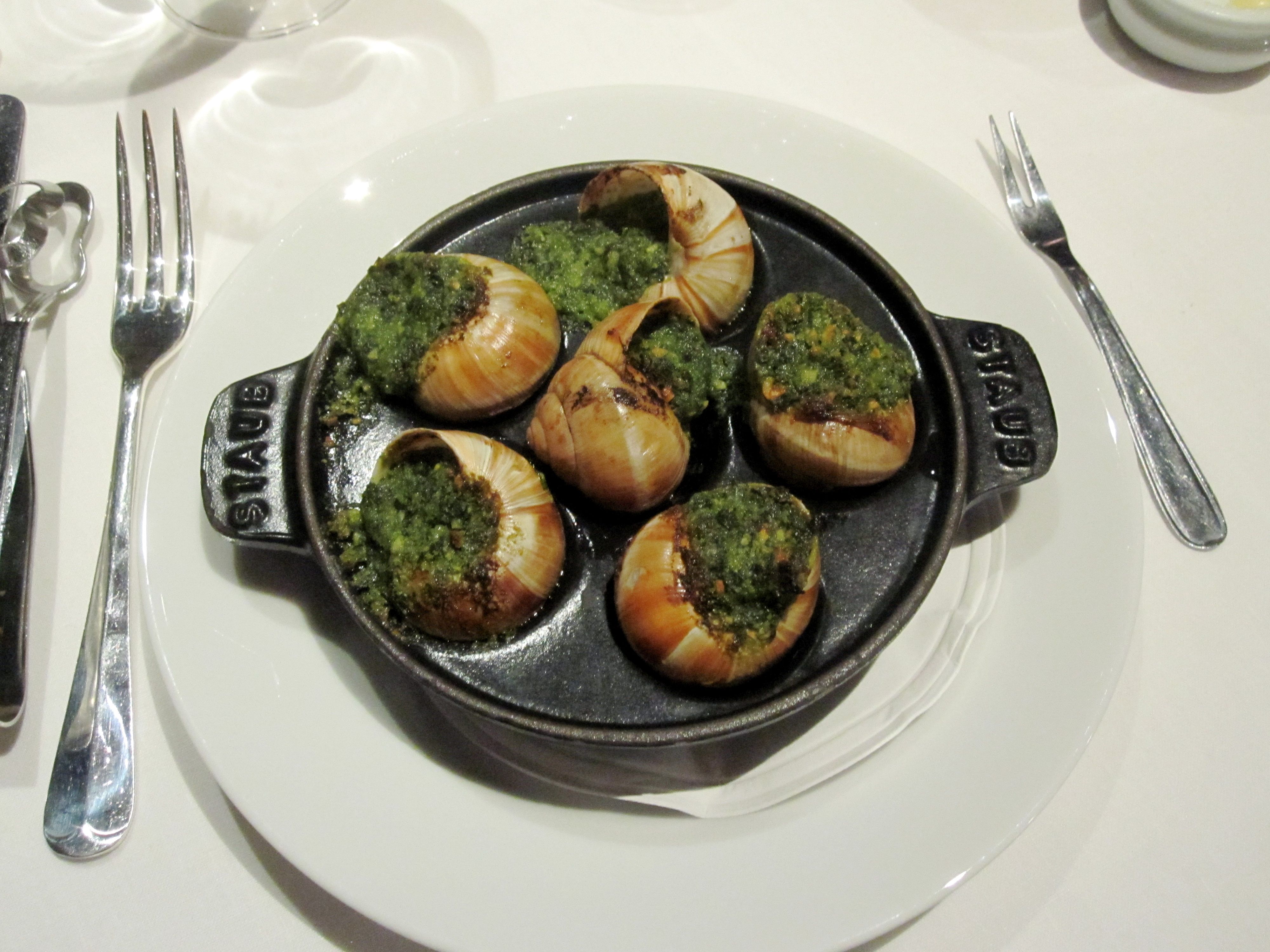 Escargot à la Bourguignonne @The Boundary.